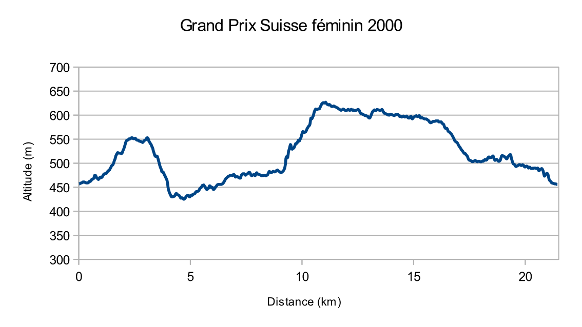 Profil of Grand Prix Suisse féminin 2000.